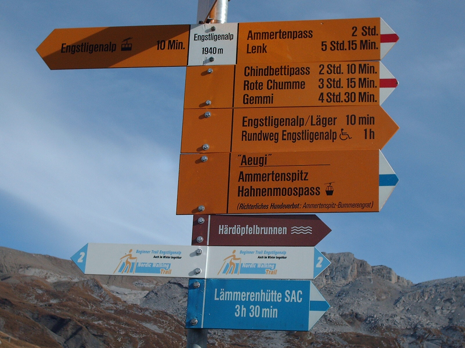 Swiss hiking path signs for mountain path and alpine route at Engstligenalp, Adelboden, Switzerland